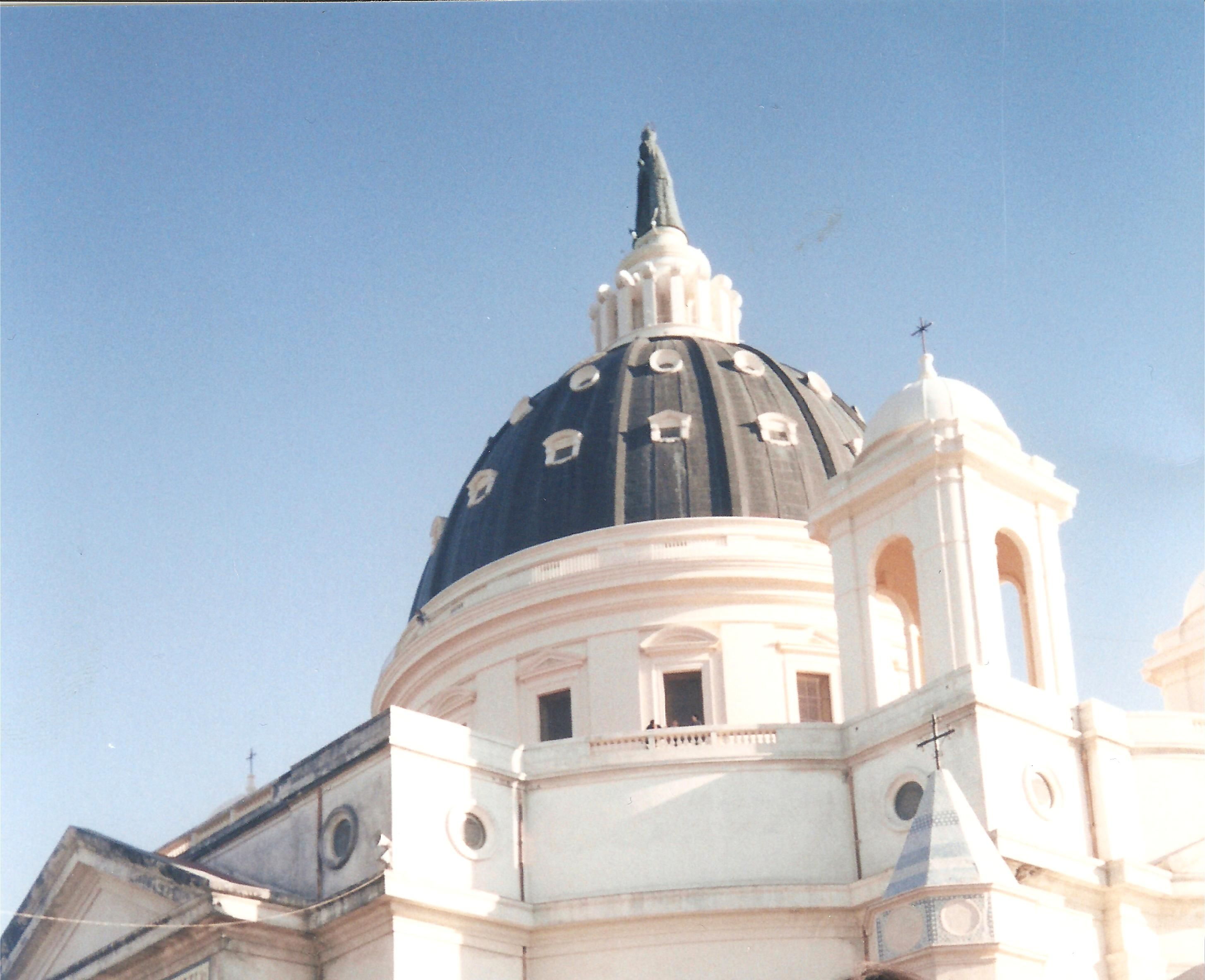 Itati Basilica view from the right side (North)